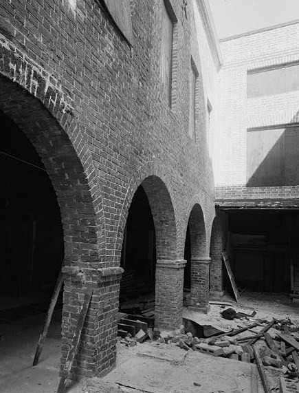 McCrady's Tavern, 2 Unity Alley, Charleston (Charleston County, South Carolina) (cropped)